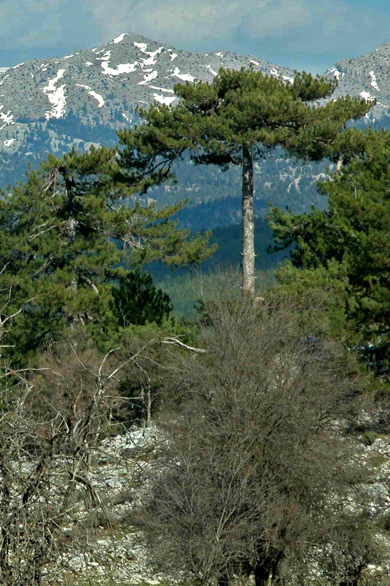 Pinus nigra var. caramanica forms large stands in the central Taurus Mountains.- between Akseki and Bademli, 1360 m s.l. on 16.4.2004.-From: G. Pils: Flowers of Turkey - a photo guide.- 448 pp.– Eigenverlag Gerhard Pils (2006).